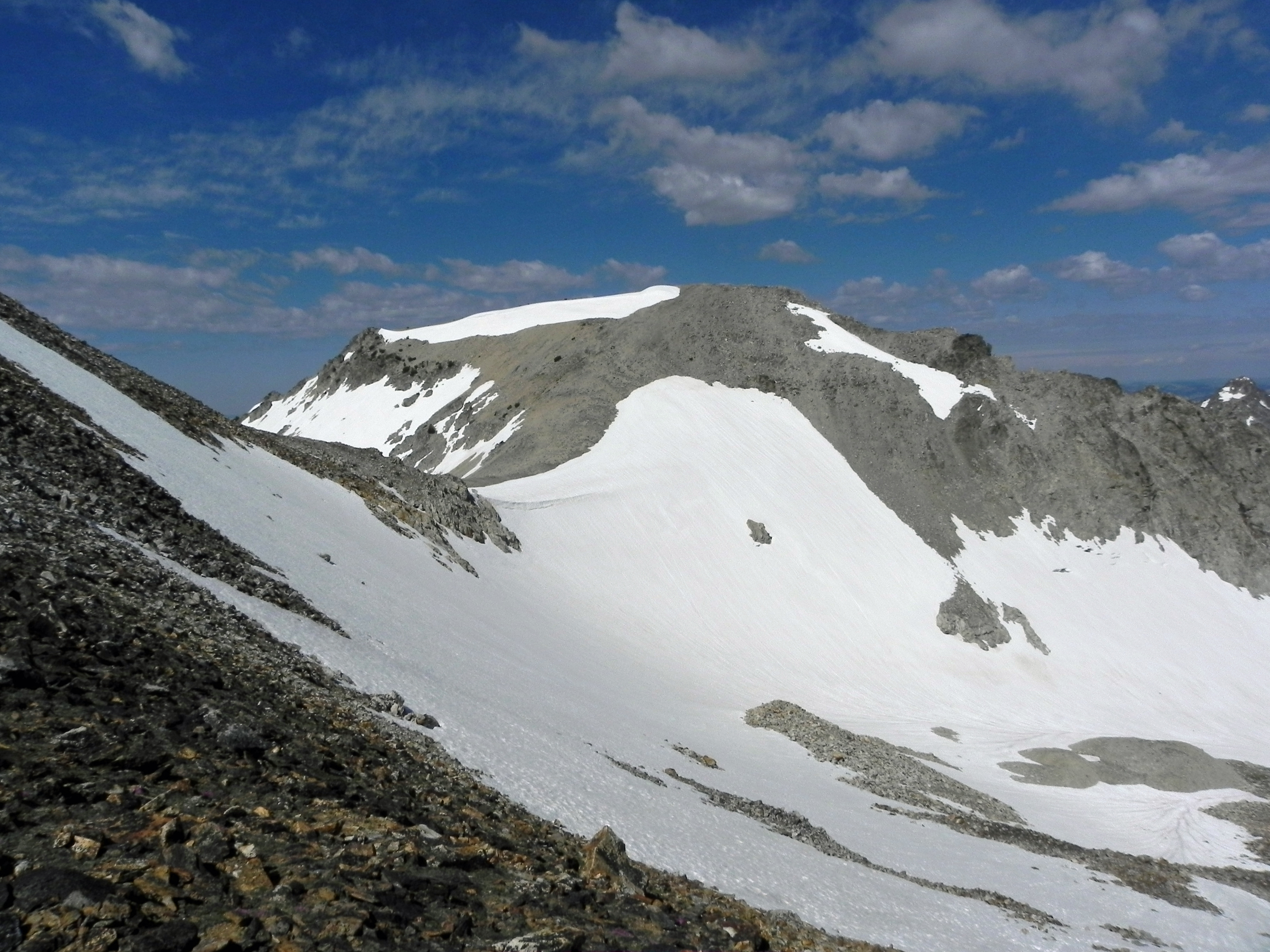 Mount Carter in the Sawtooth Range viewed from the west side of Thompson Peak.